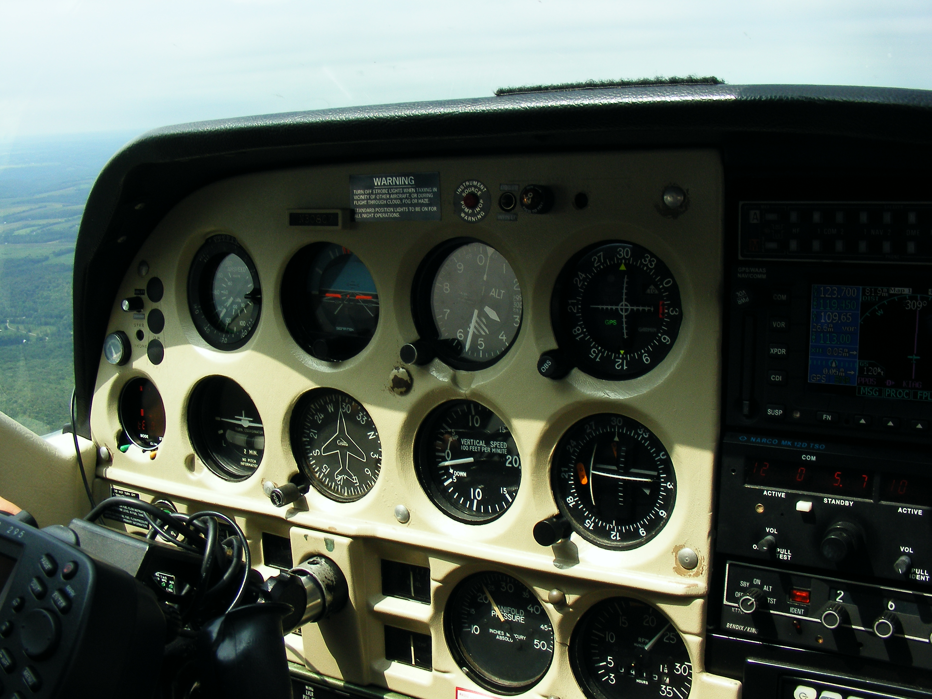 Instrument panel of the Cessna 177B Cardinal